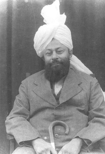 Hadhrat Mirza Bashir-ud-Din Mahmood Ahmad